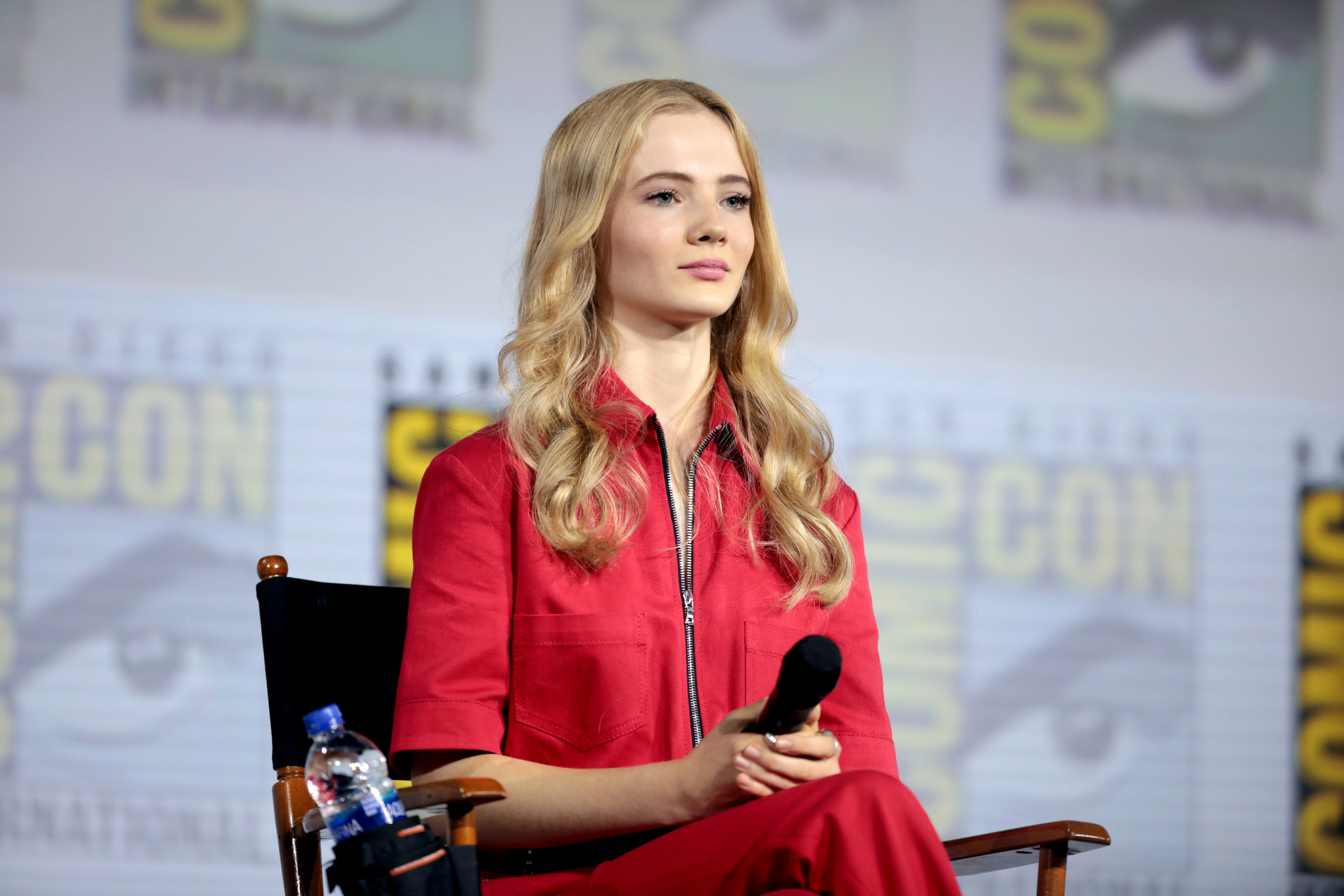 Freya Allan speaking at the 2019 San Diego Comic Con International, for "The Witcher", at the San Diego Convention Center in San Diego, California.